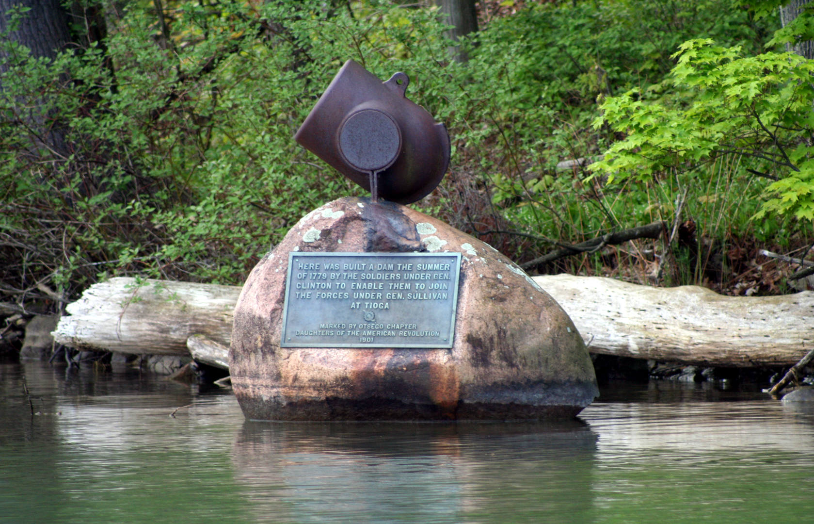 Gen. James Clinton's dam monument at source of the Susquhanna River in Cooperstown, New York